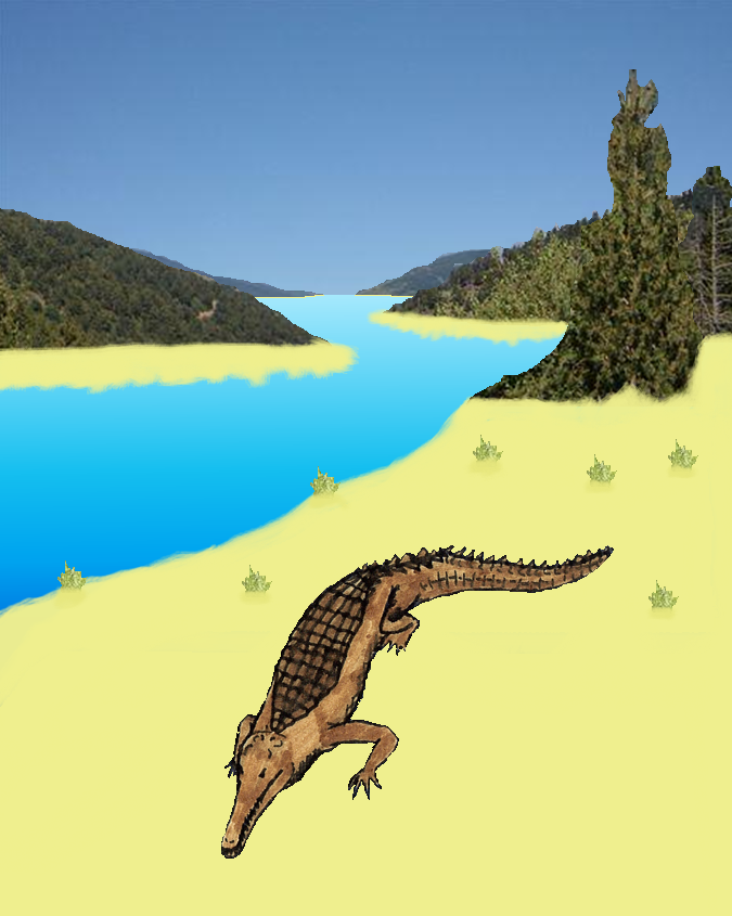 Gryposuchus, a giant gryposuchine gharial from the Miocene period.